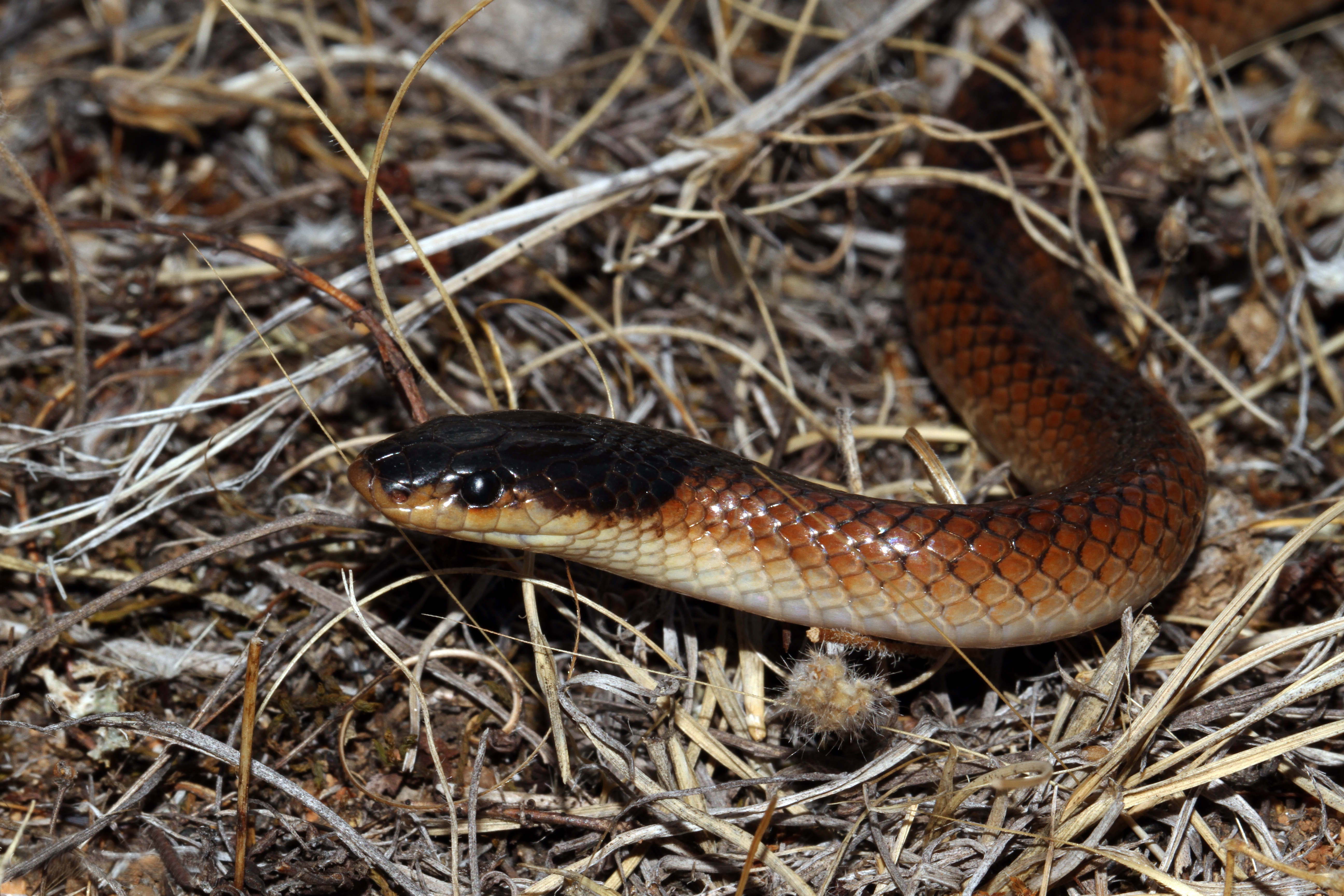 North Central Vic.